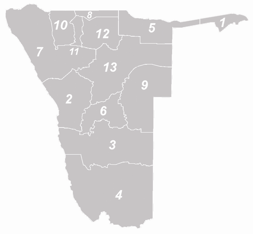 numbered map of the 13 regions in Namibia